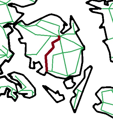 Map of railways on Funen in Denmark with the private railway Odense-Nørre Broby-Faaborg Jernbane in brown.